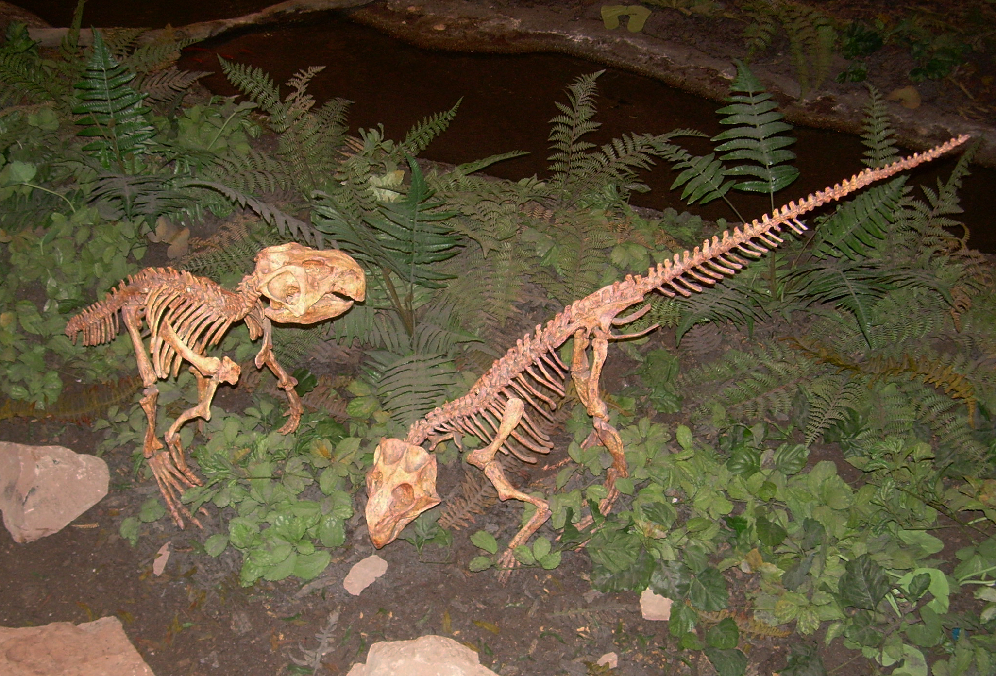 Photograph of fossil casts of Psittacosaurus skeletons taken at the North American Museum of Ancient Life.